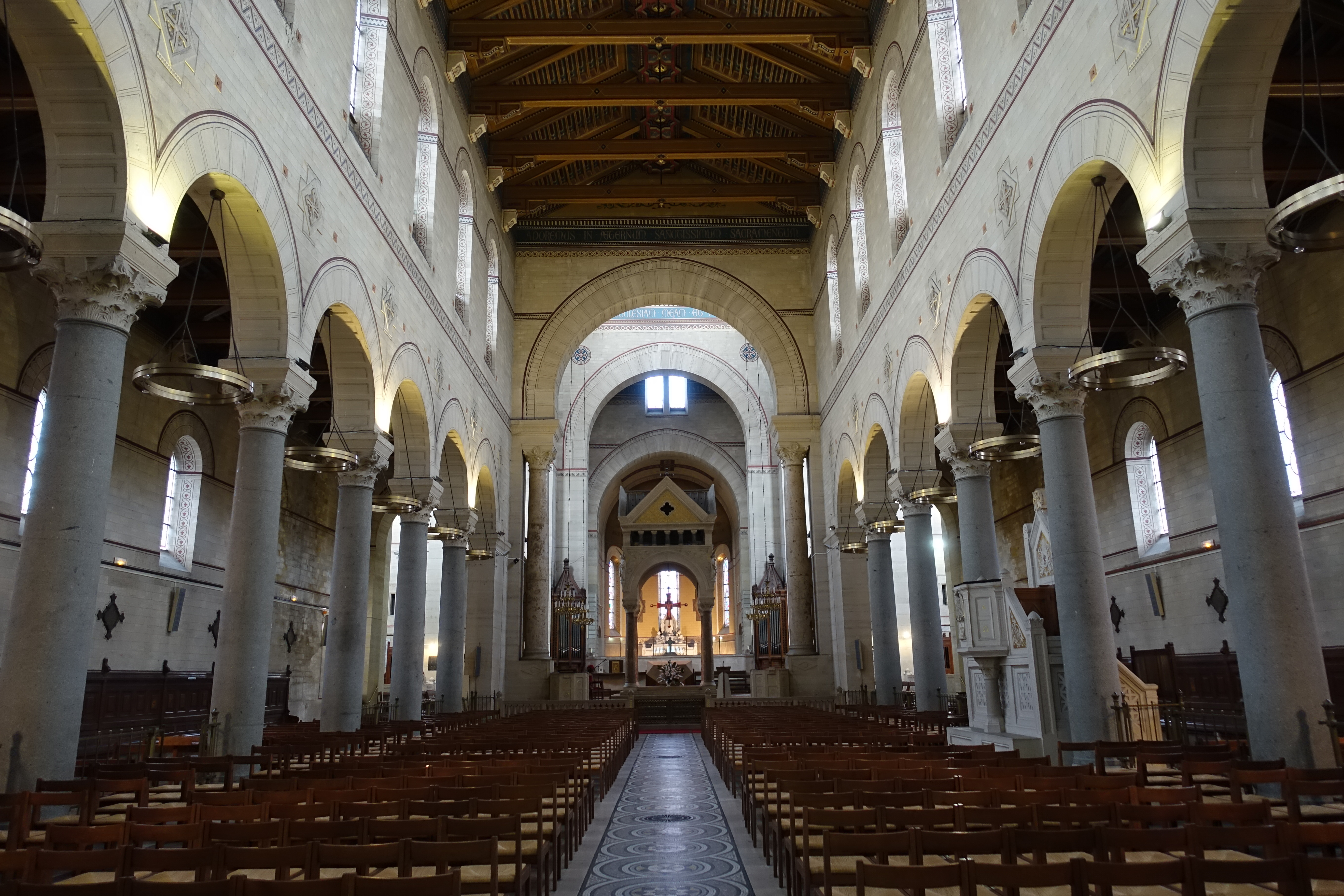 Saint-Pierre-de-Montrouge, a 19th-century church in Paris, in the Petit-Montrouge quarter of the XIVe arrondissement. Address: 82 Avenue du Général Leclerc, 75014 Paris, France.